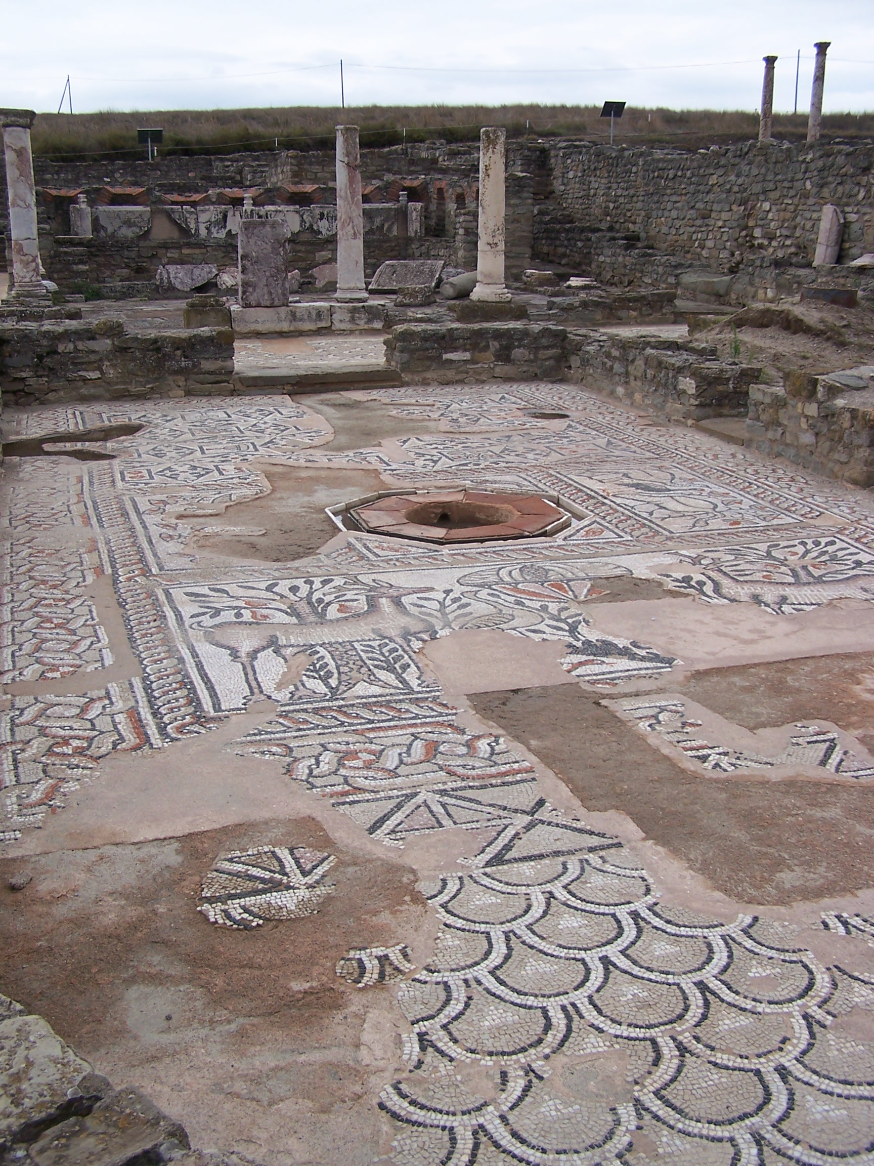 Small bath at archeological site Stobi